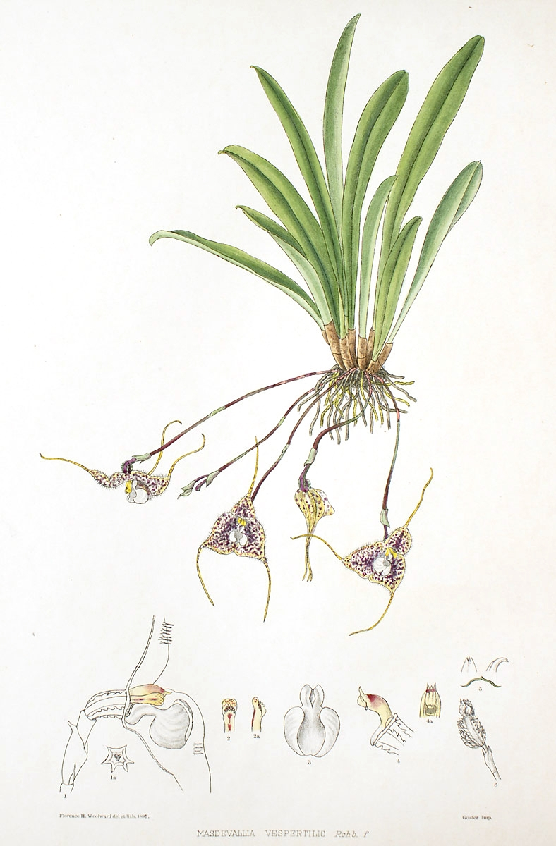 Illustration of Dracula vespertilio from Florence H. Woolward: The Genus Masdevallia